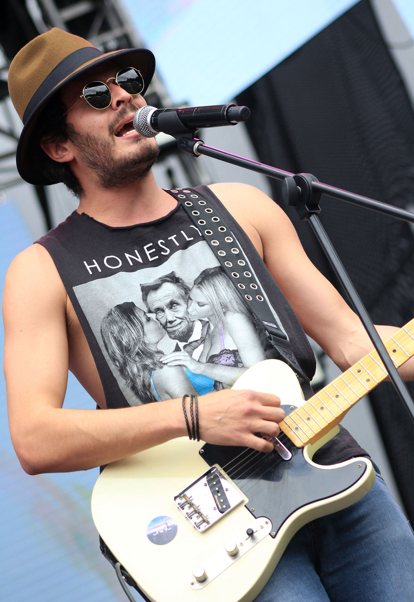 Dann Visbal performing in a stage